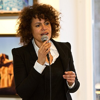 Viktor Lazlo mini concert, Librairie Kleber, Strasbourg